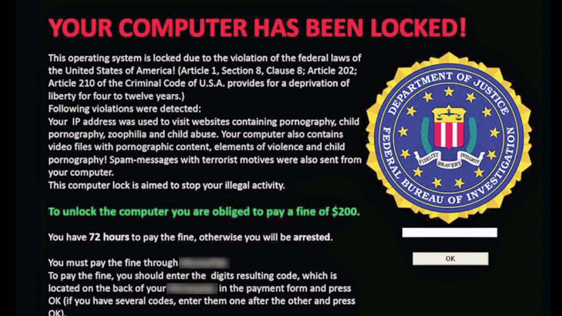 Picture of a Ransomware attack